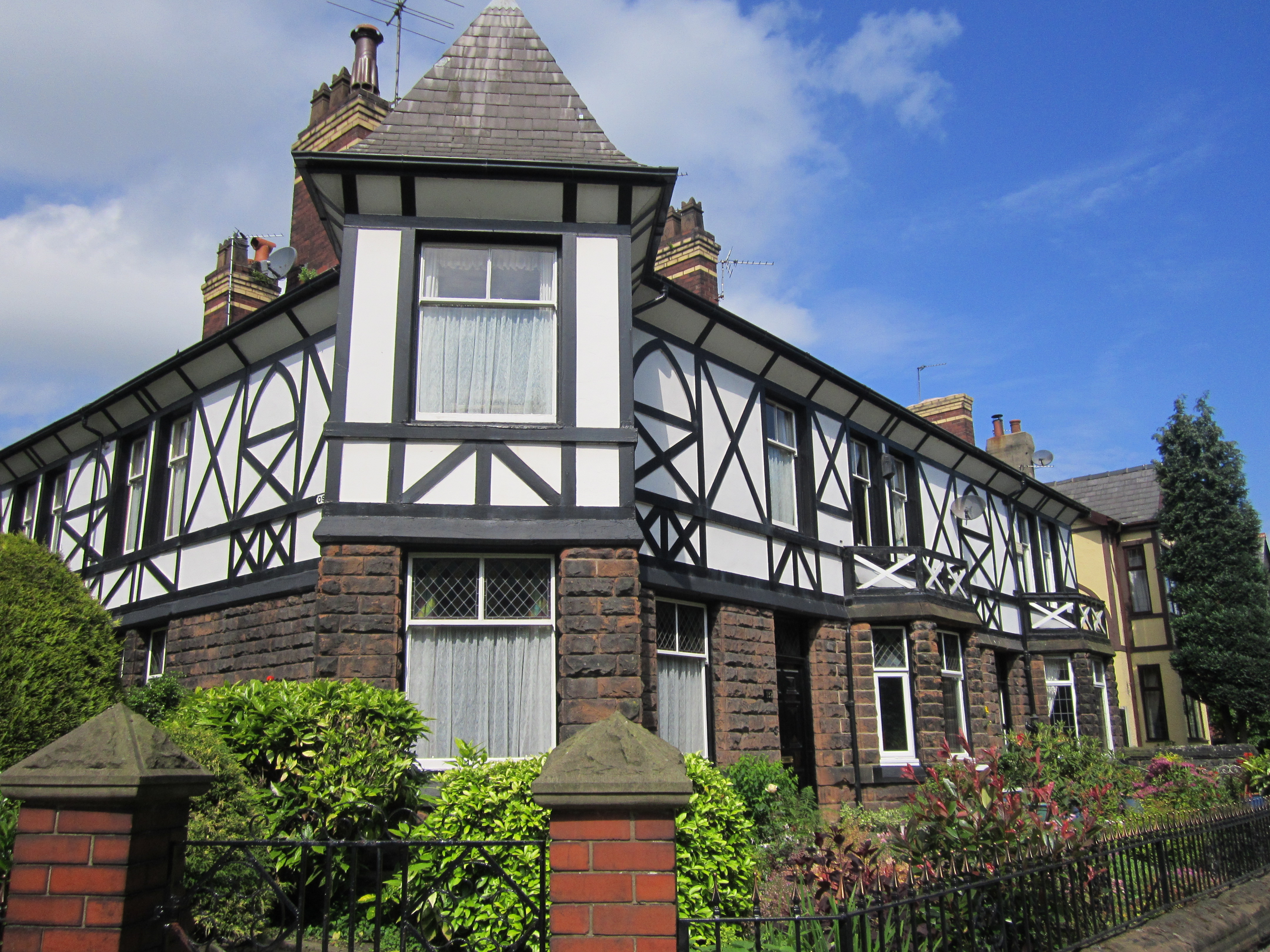 Houses on Wigan Road, Ashton-in-Makerfield, Greater Manchester, England.